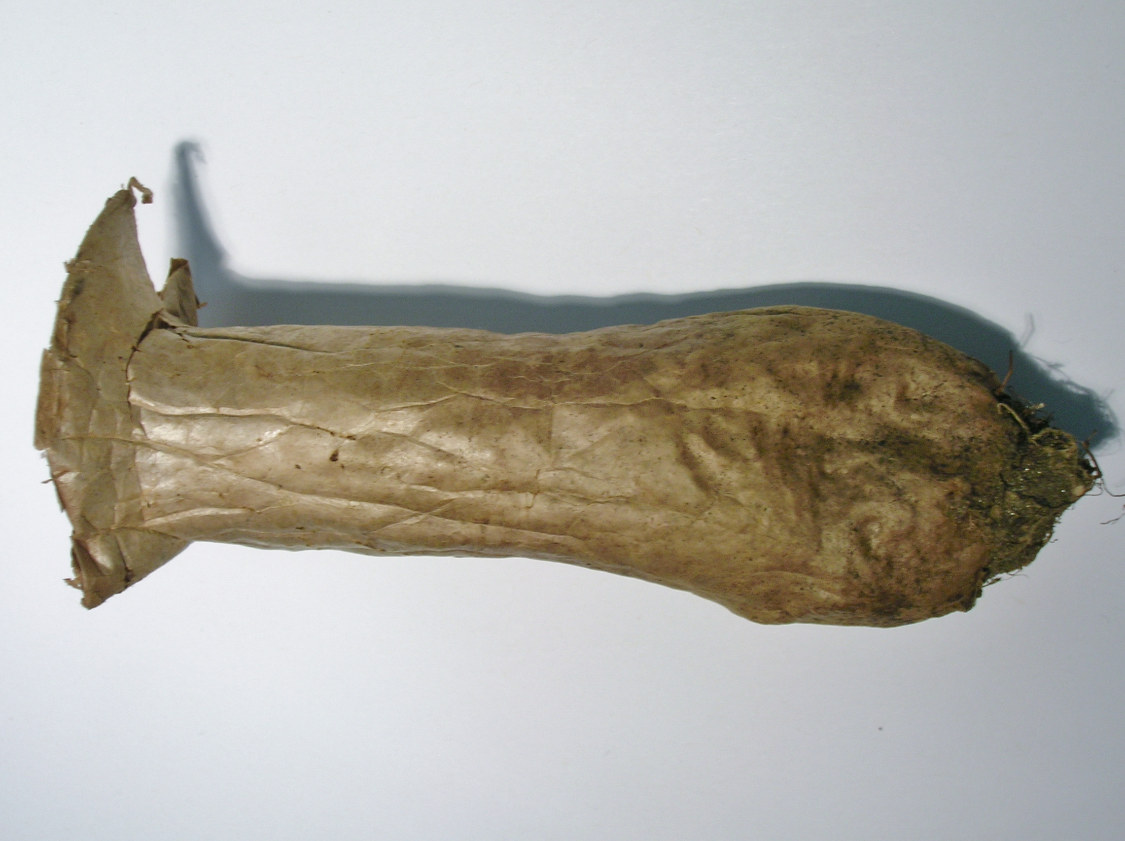 Handkea excipuliformis overwintered stipe, Eglinton Country Park, Irvine, North Ayrshire, Scotland.